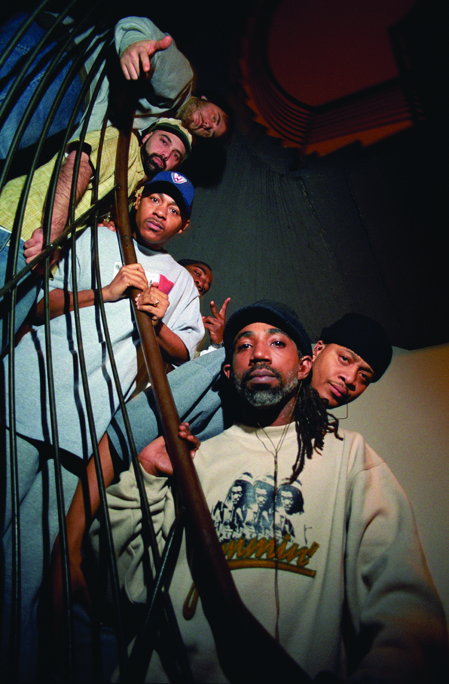 Jurassic 5 in Hamburg/Germany